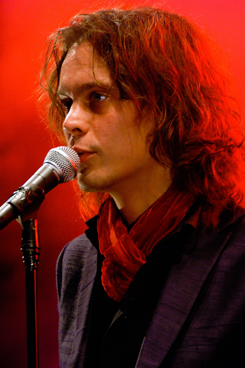 Ville Valo of the band HIM performing at the Ilosaarirock 2007 festival.